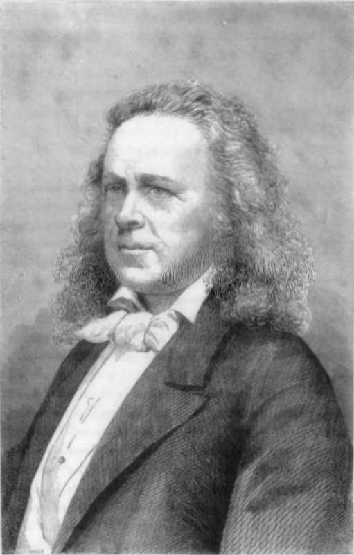 Elias Howe - Project Gutenberg eText 15161